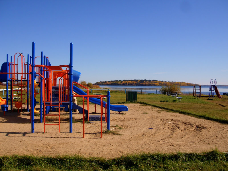 Playground on the shore of Churchill Lake in Buffalo Narrows, Saskatchewan.